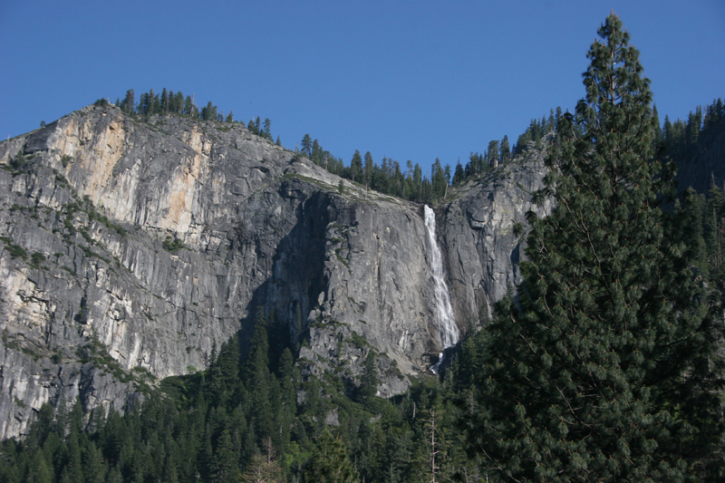 Silver Strand Falls. Photo taken May 2006 from Inspiration Point, on the East end of the Wawona Tunnel on Highway 41. Taken in the late afternoon, after a heavy snowfall year.